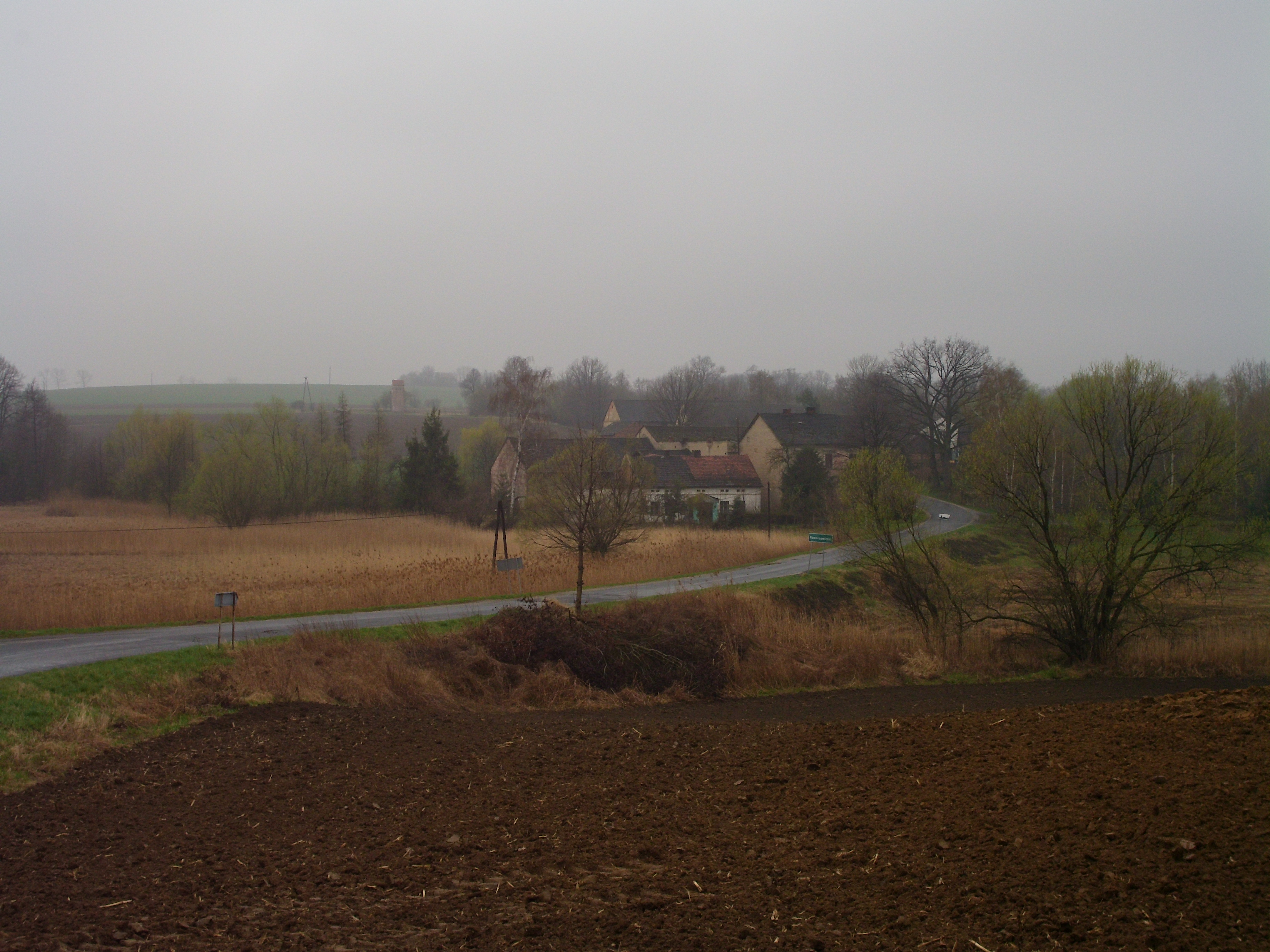 Panorama of Pomorzowiczki, a village in Poland